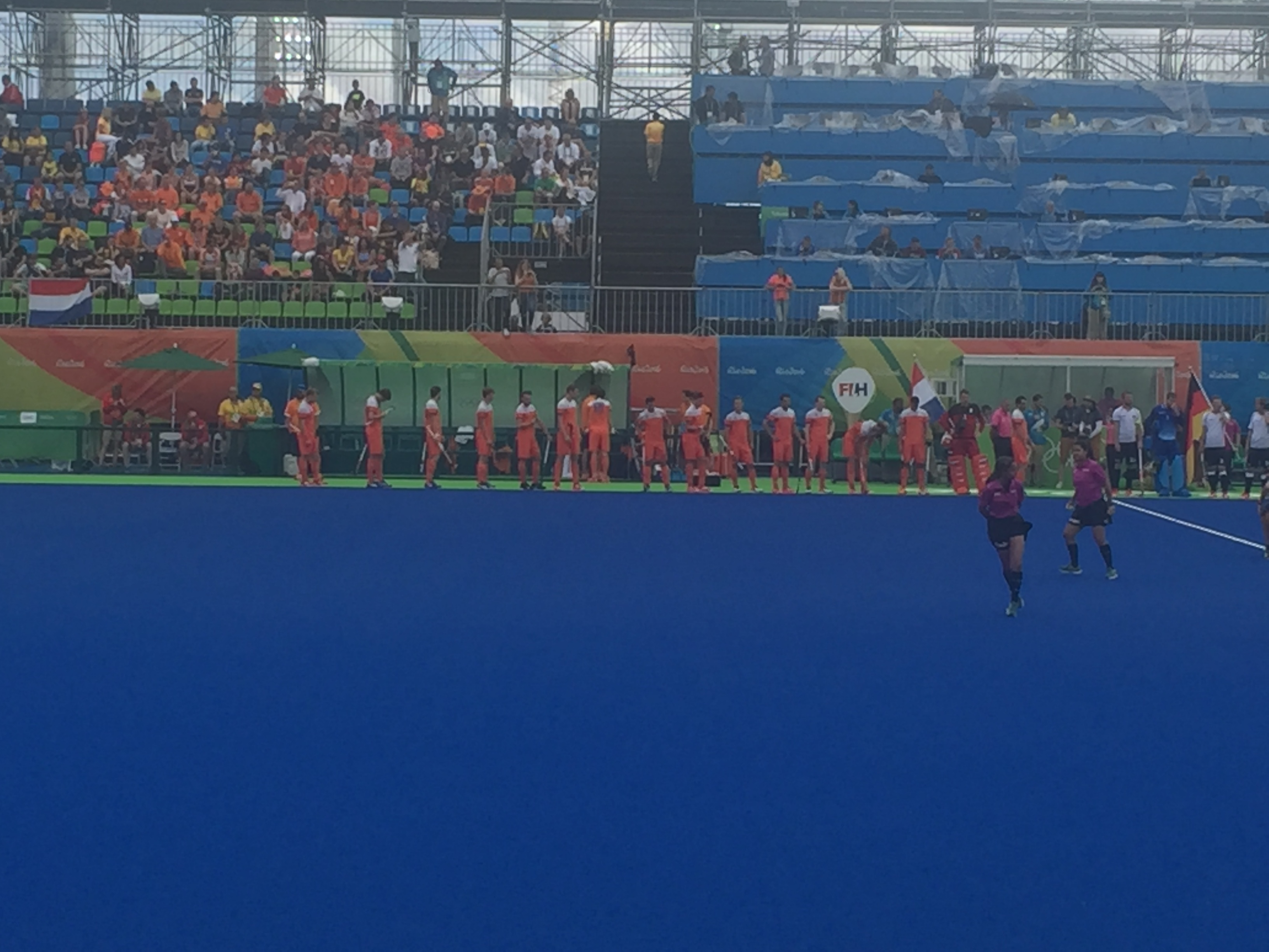 Rio 2016 Summer Olympics